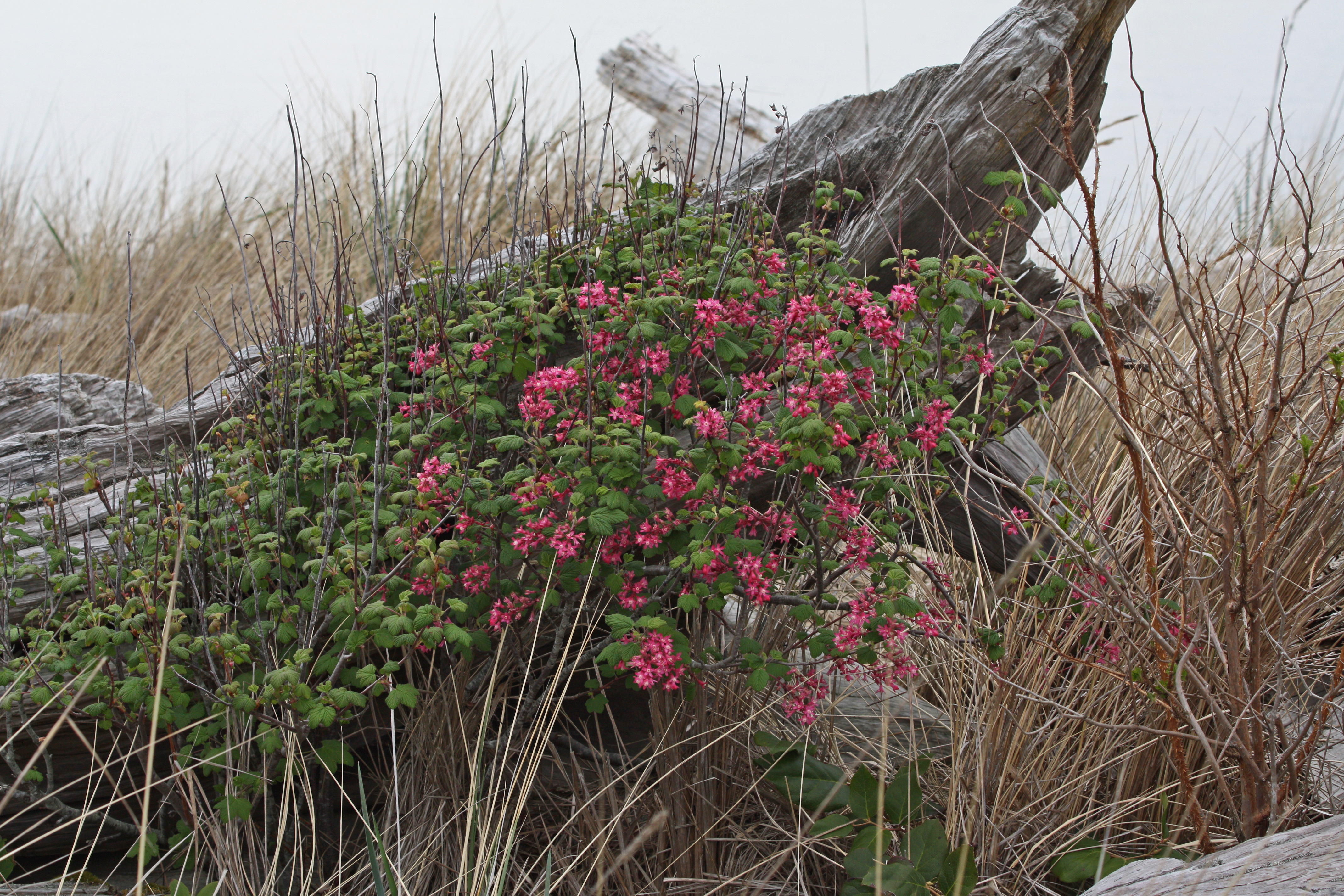 Redflower Currant, Flowering Currant; Driftwood